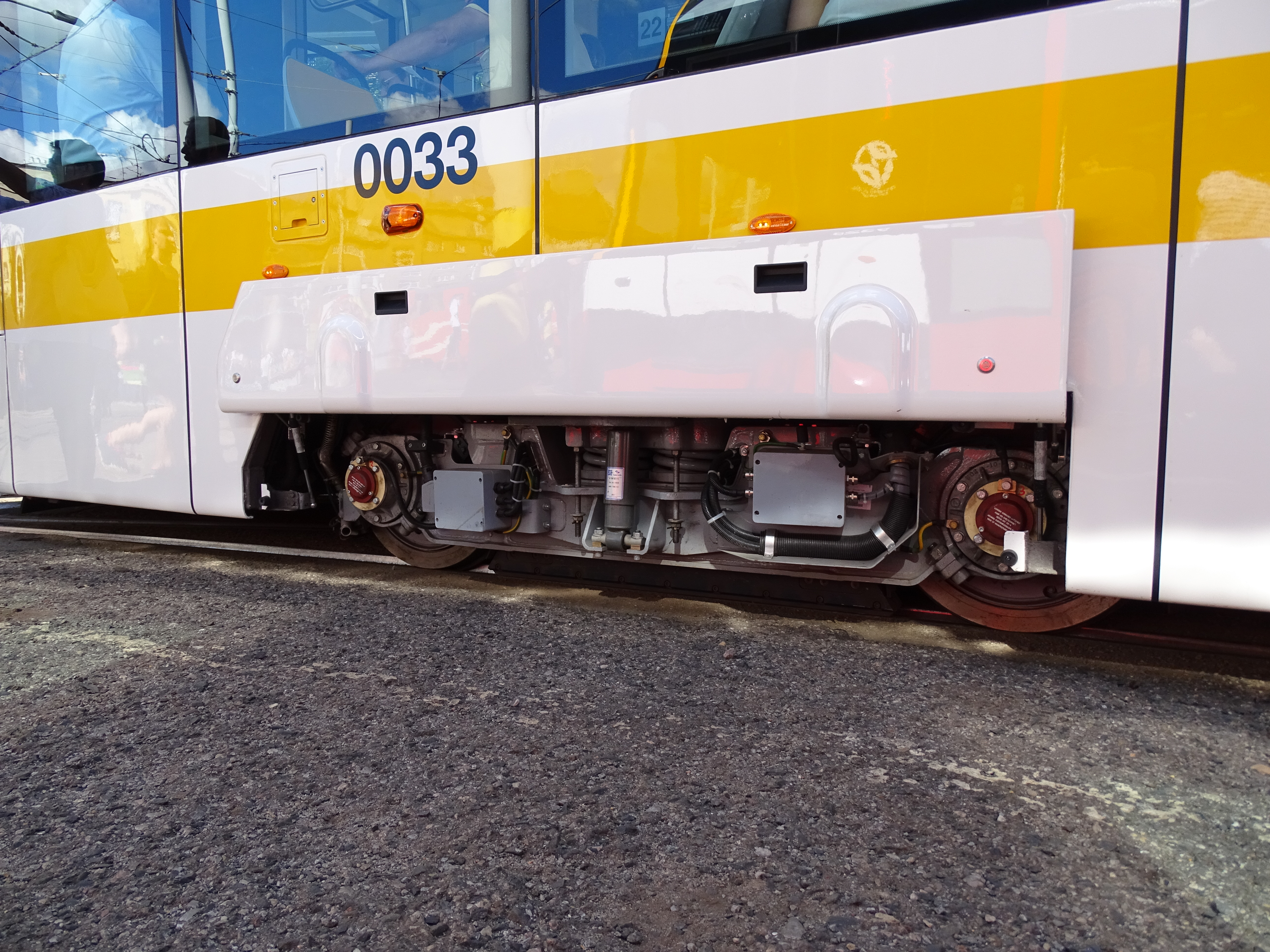 Prague-Strašnice, Czech Republic. Strašnice tram depot, a tram EVO1 #0033.